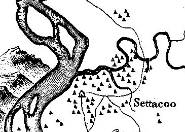 Detail of Henry Timberlake's 1765 "Draught of the Cherokee Country," showing the location and layout of the Cherokee town of Citico (spelled "Settacoo"). The Citico site is now submerged under Tellico Lake in modern-day Monroe County, Tennessee, in the southeastern United States.